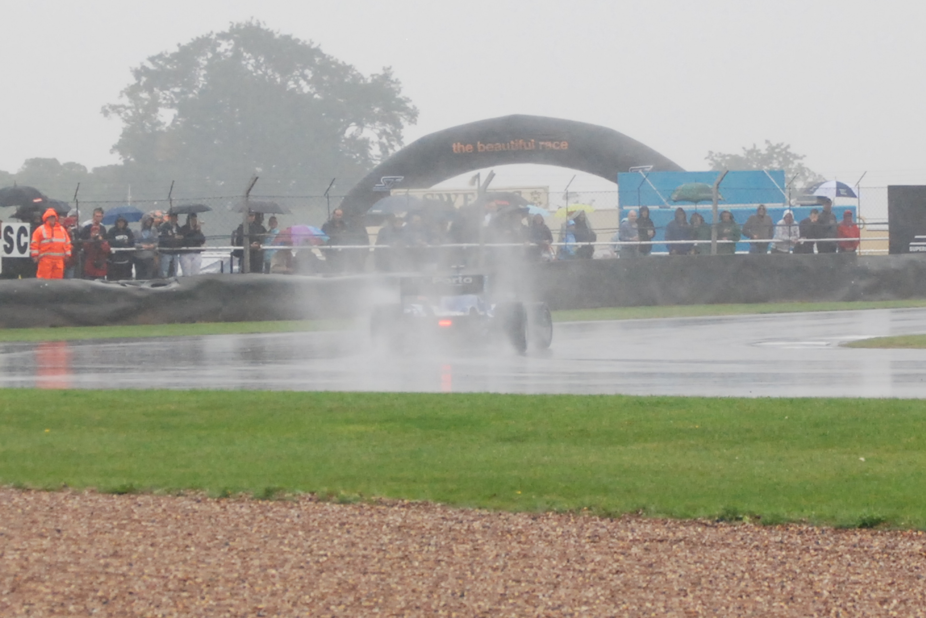 The FC Porto car enters the Melbourne Loop at Donington Park in race two of the Superleague Formula.